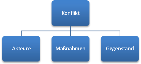 Depicts the constituting elements of a political conflict according to the methodology used at Heidelberg Institute for International Conflict Research (HIIK)